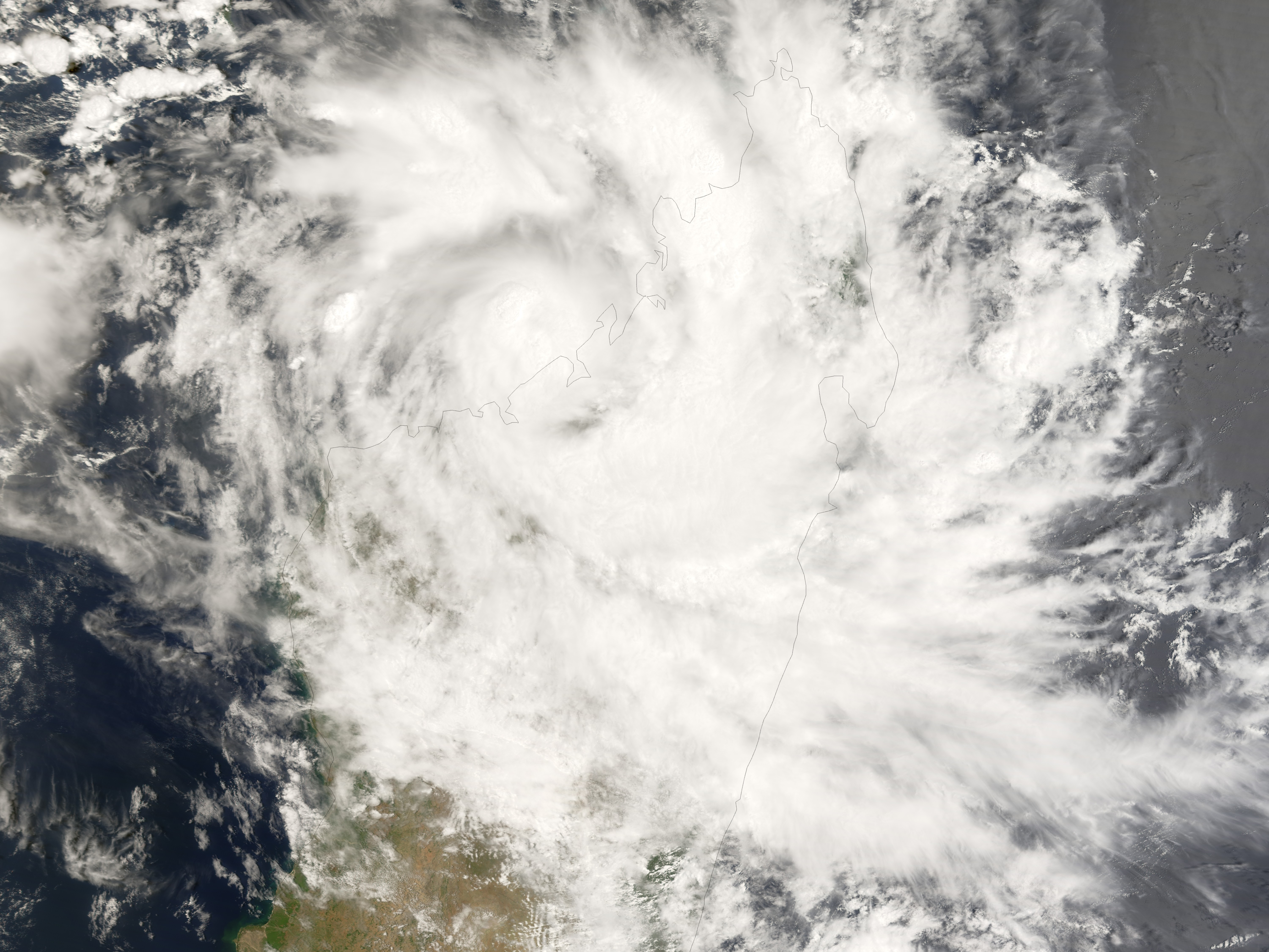 Tropical Cyclone Bondo spent the days before Christmas in the Seychelles north of Madagascar, whipping those islands with powerful Category 2-strength winds. The storm then turned south and grazed along the northwestern coast Madagascar on December 24, while building strength to Category 4, according to the Global Disaster Alert and Coordination System. The cyclone then came ashore at the north end of Madagascar on December 25, where more than 4.5 million people lived within 200 kilometers of the storm. This photo-like image was acquired by the Moderate Resolution Imaging Spectroradiometer (MODIS) on the Terra satellite on December 25, 2006, at 9:55 a.m. local time (6:55 UTC), while the storm’s center was coming ashore. Bondo had well-defined spiral arms of rain clouds and thunderstorms at the time of this image, and a distinct, cloud-filled (or “closed”) eye at its center. It was not as strong a storm as it had been the previous day, however, as coming ashore robbed it of the source of its power—the warm waters of the Mozambique Channel between Madagascar and mainland Africa. According to the University of Hawaii’s Tropical Storm Information Center, peak winds had fallen to around 110 kilometers per hour (70 miles per hour), still quite potentially destructive.